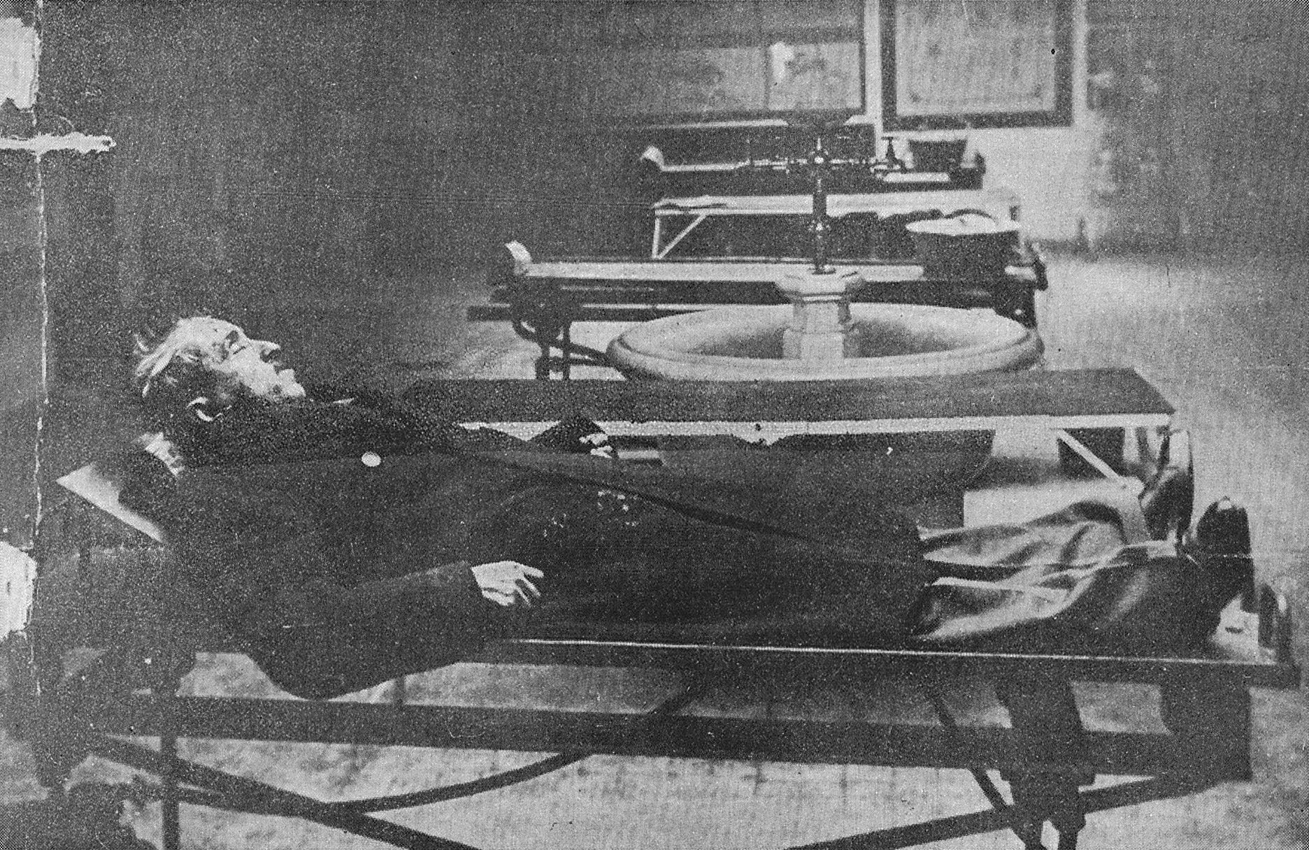 The dead body of former minister Virgil Madgearu at the Medico-Legal Institute in Bucharest, following assasination by a fascist death squad on the 27th of november 1940.